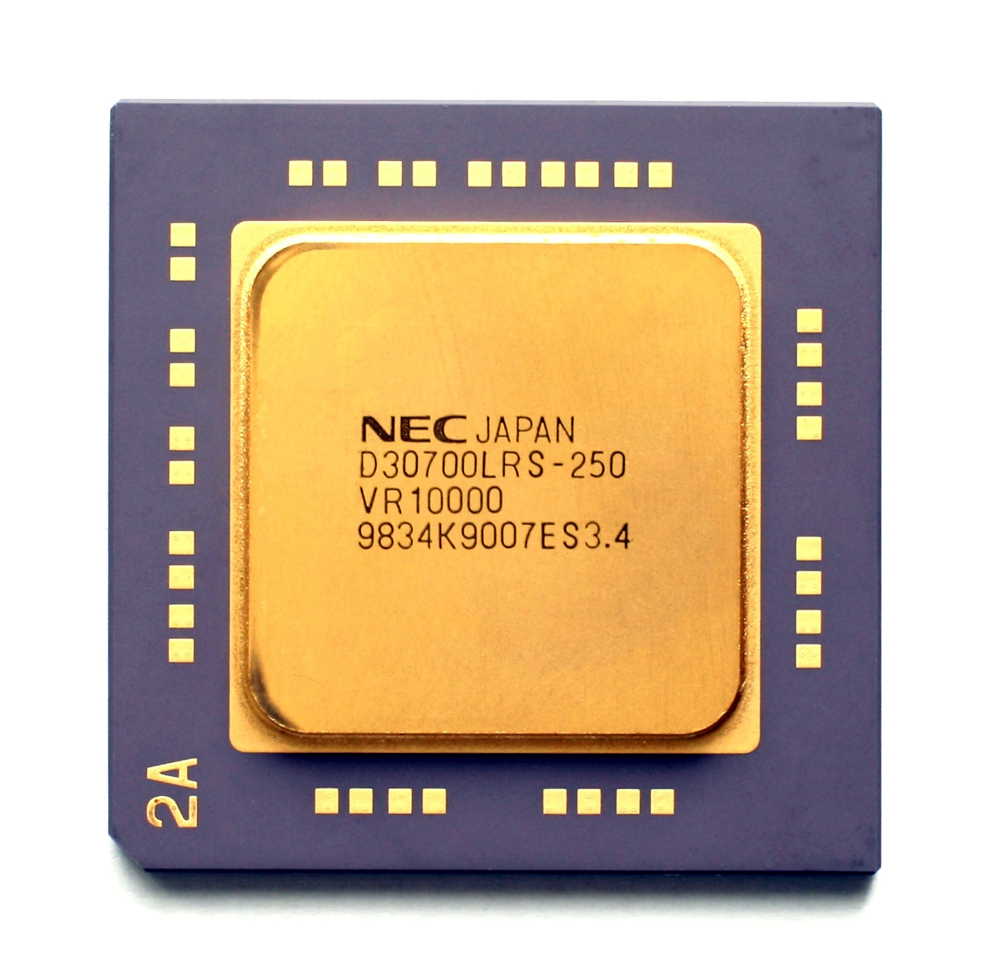 CPU NEC VR10000 or µPD30700 (MIPS R10000).